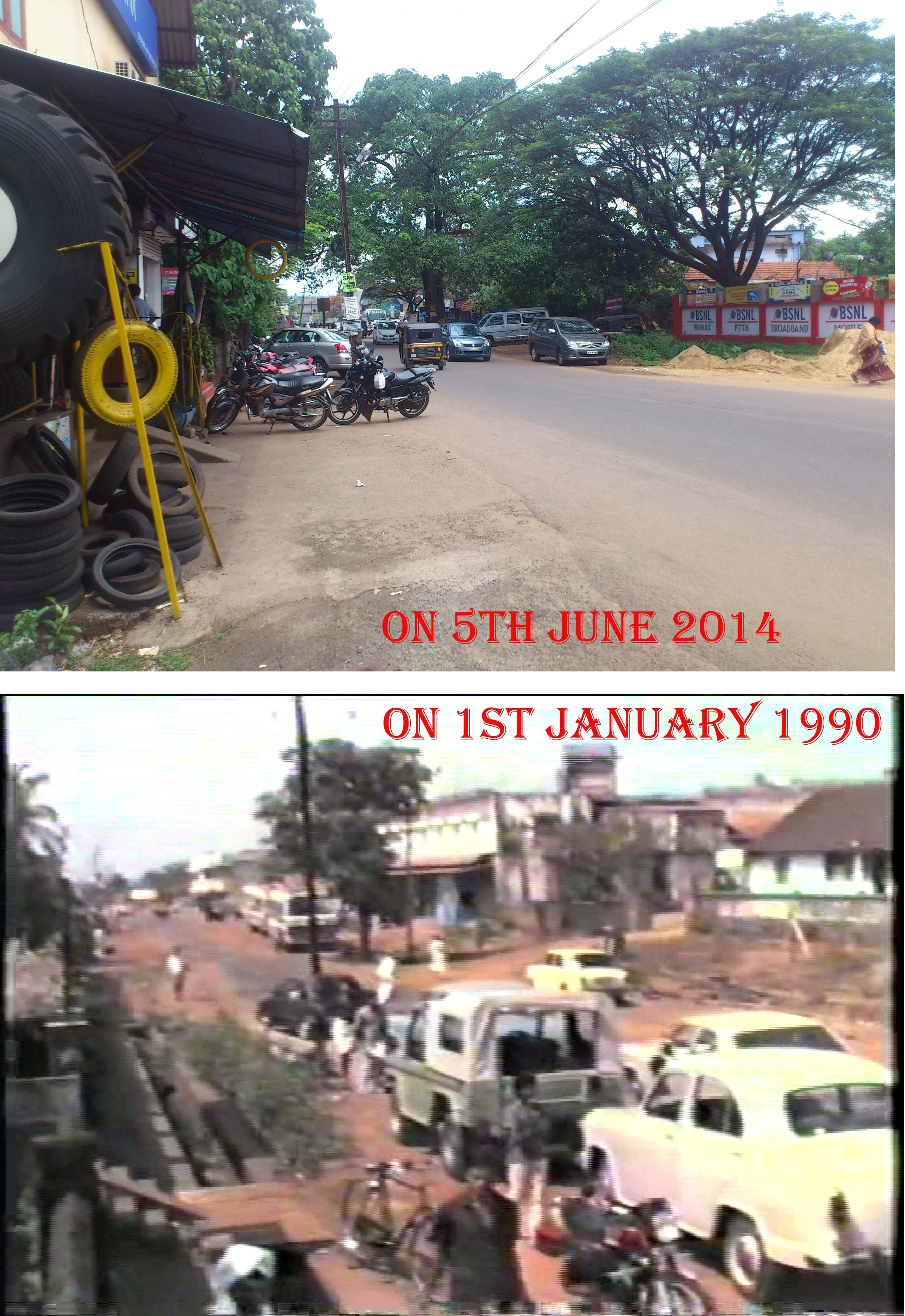 Now and then album